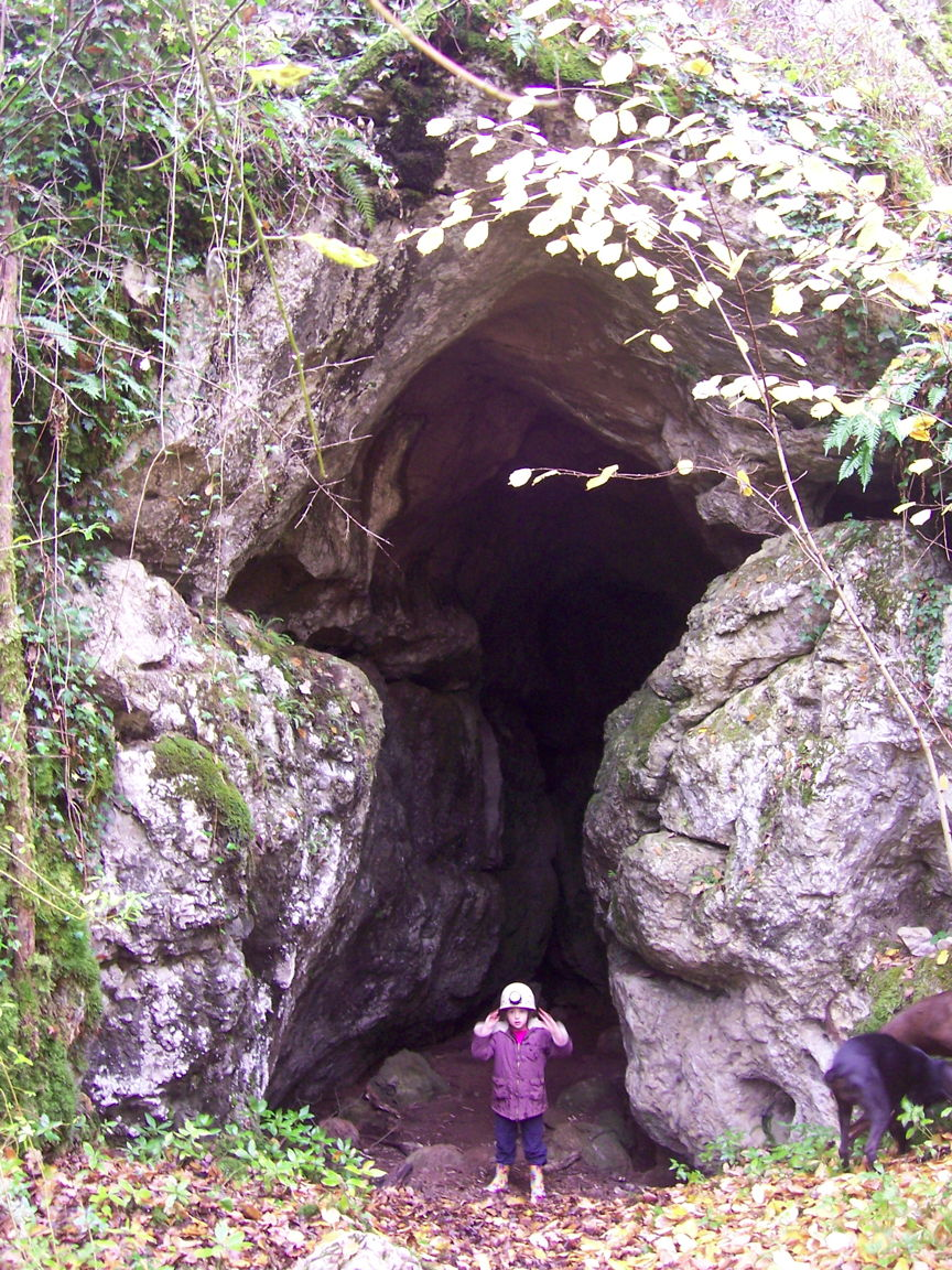 Picture of entry porch of Crousate cave near town Gramat in France.